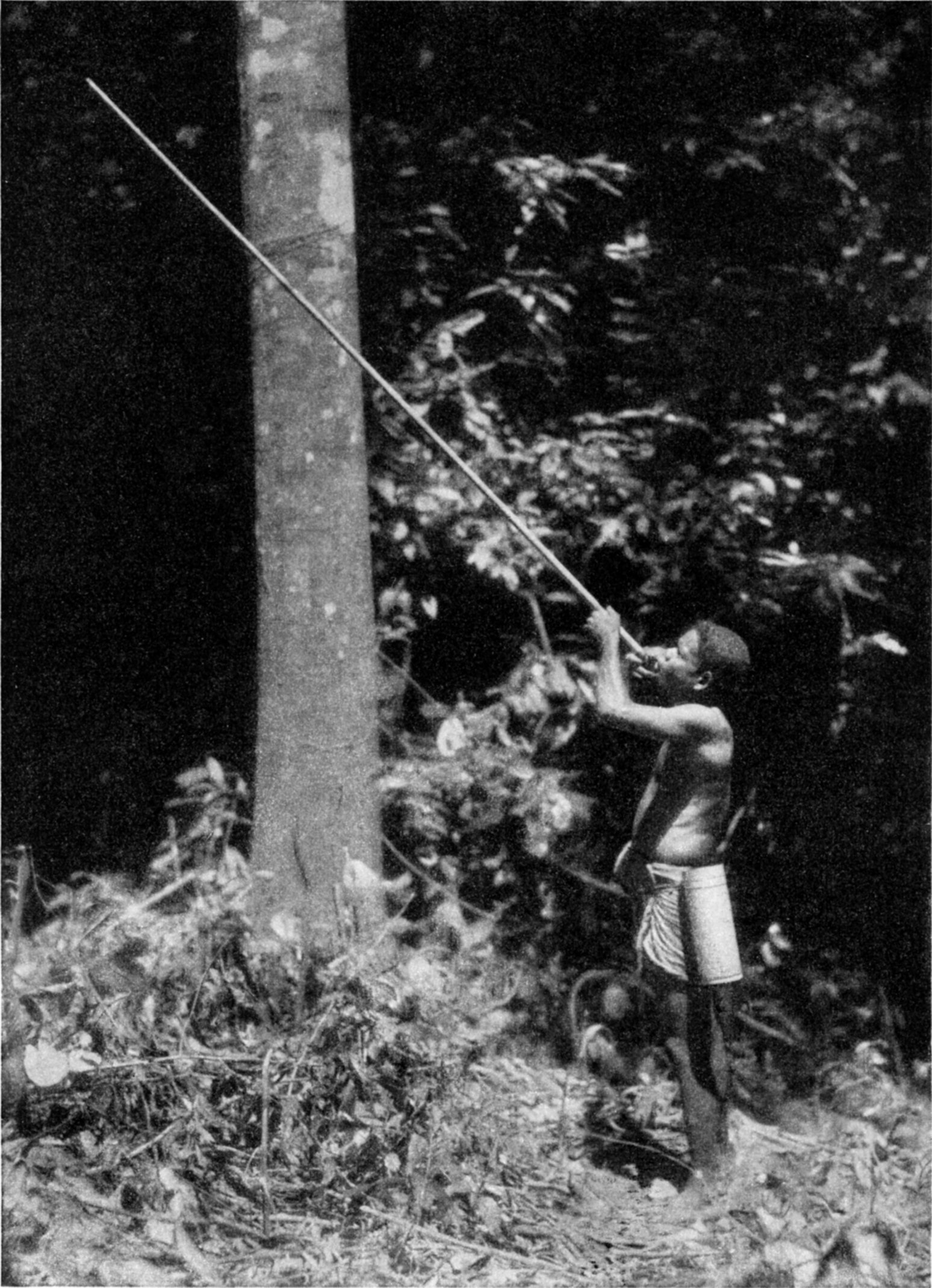 Semang shoots an arrow from his double blast pipe. The bamboo quiver at his side contains the strongly poisoned arrows. (South of the peninsula Siam)